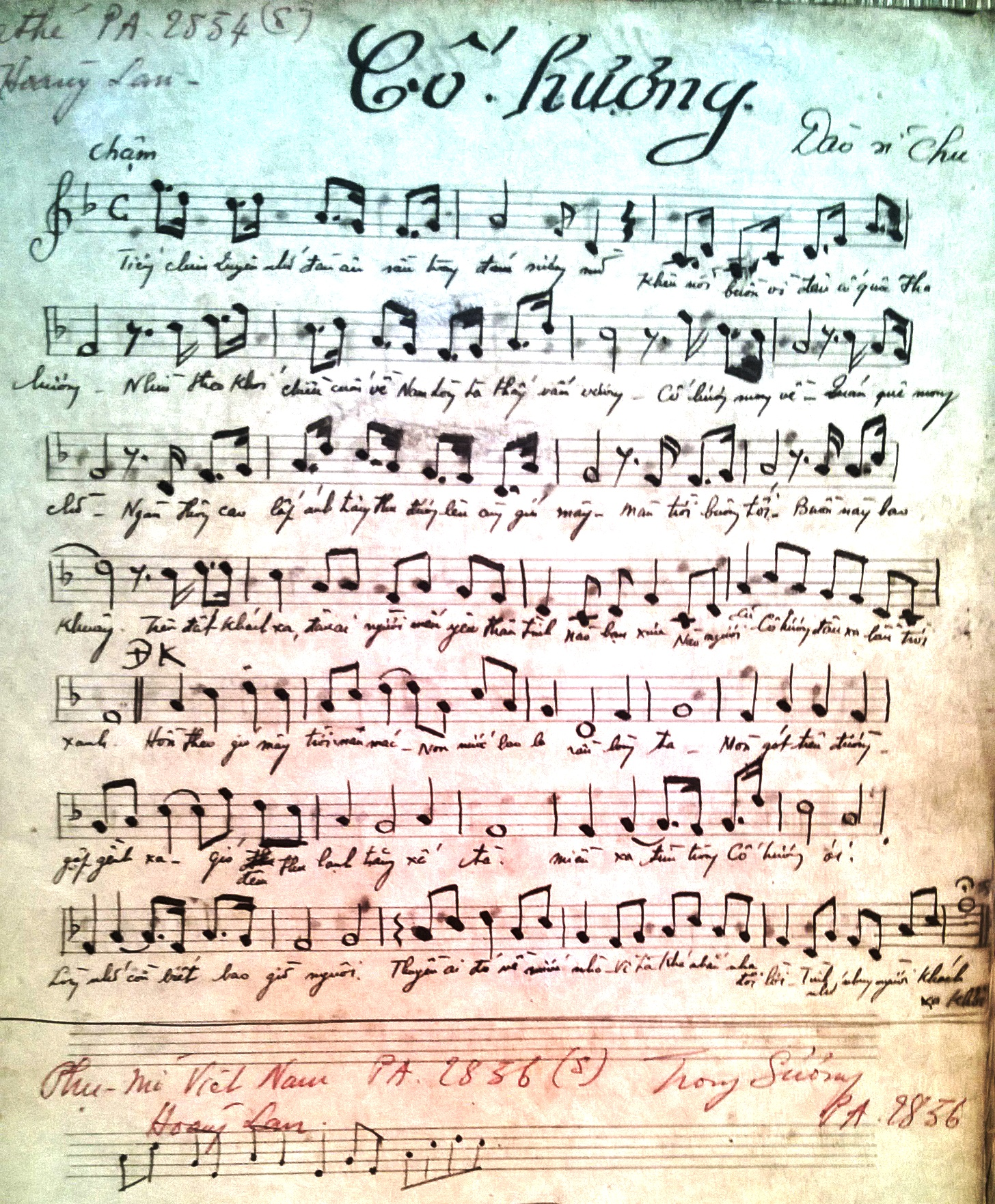 Nostalgia of native land